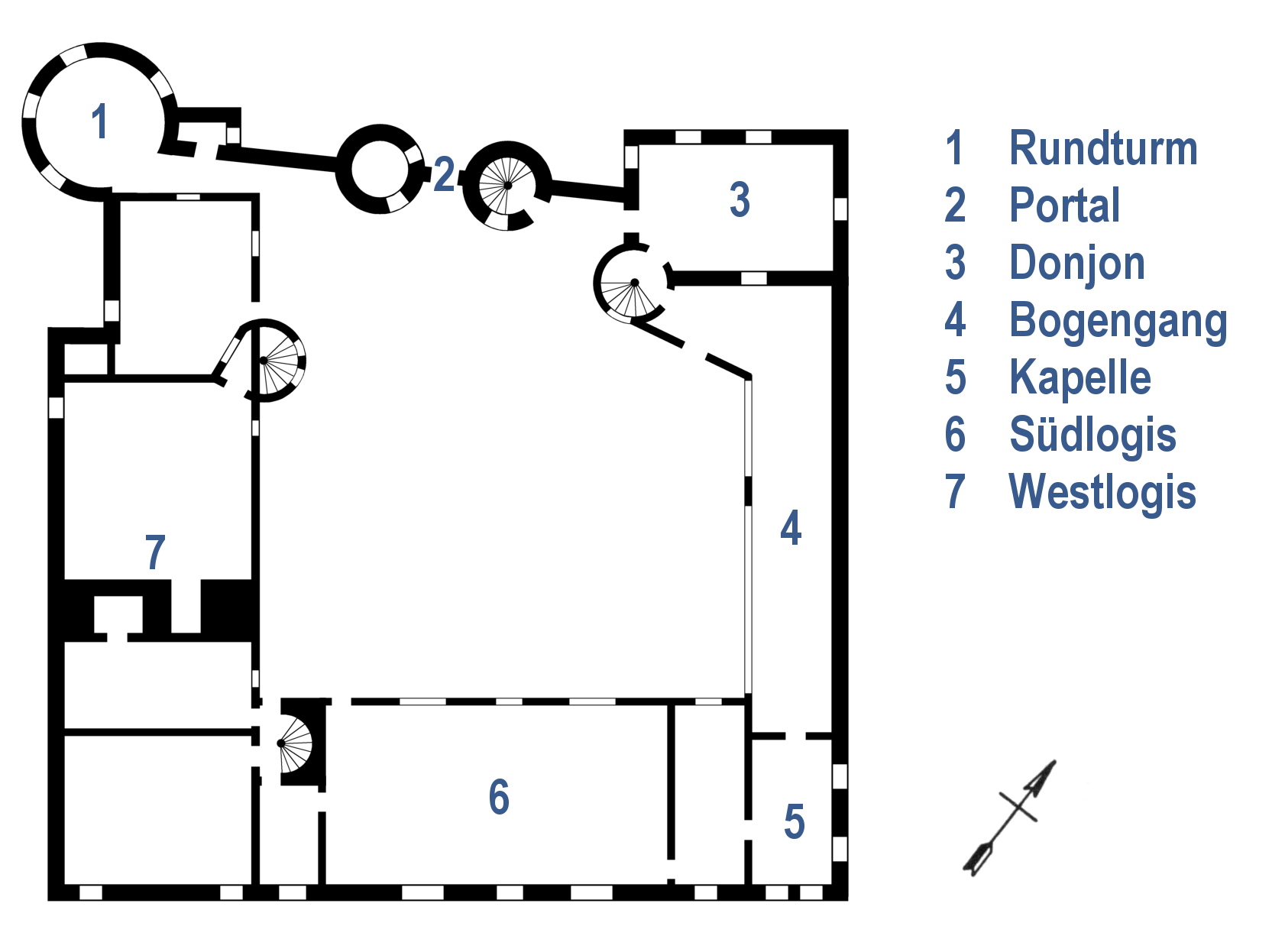 Floor plan of the castle in Fougères-sur-Bièvre